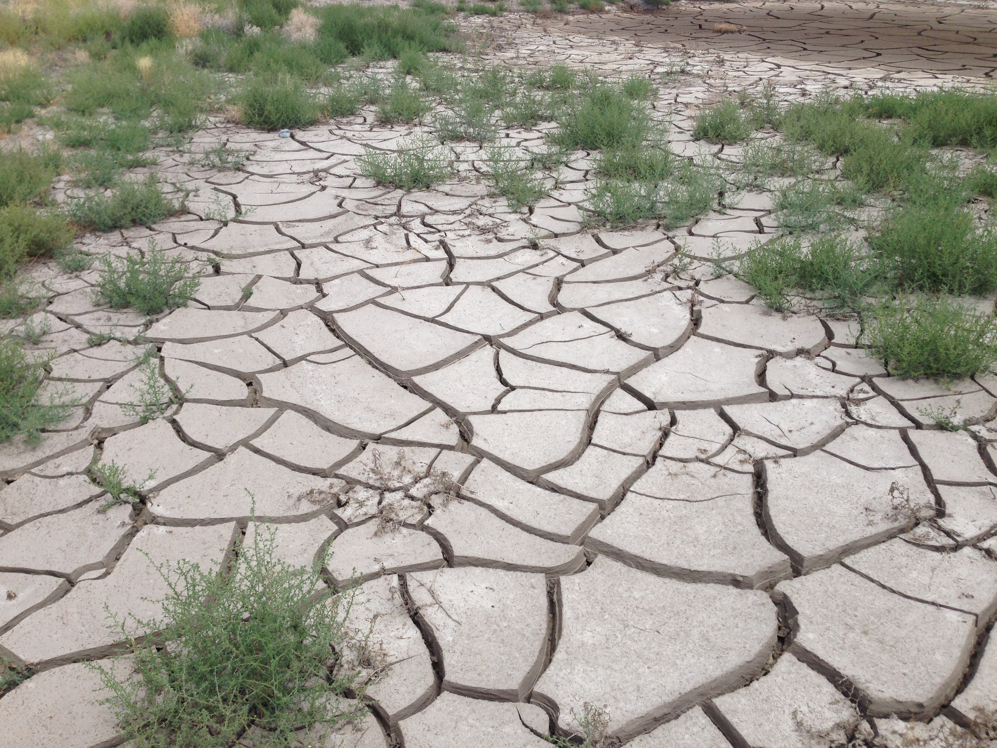 Drying and cracking mud at the intersection of Nevada State Route 361 (Gabbs Valley Road) and Nevada State Route 844 (Ione Road) near Gabbs, Nevada